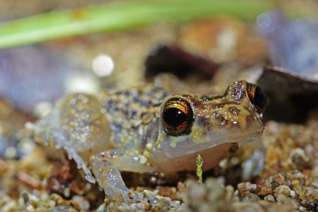 Jumped across our path during a walk through pine forest above Playa Maguana, Baracoa area.